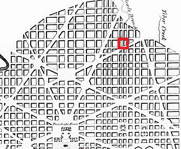 Detail of Ellicott Plan for Washington, D.C. with focus on space where Square No. 15 would have gone